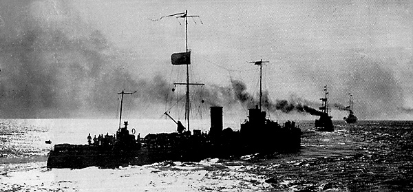 Turkish destroyer Muavenet, 1928